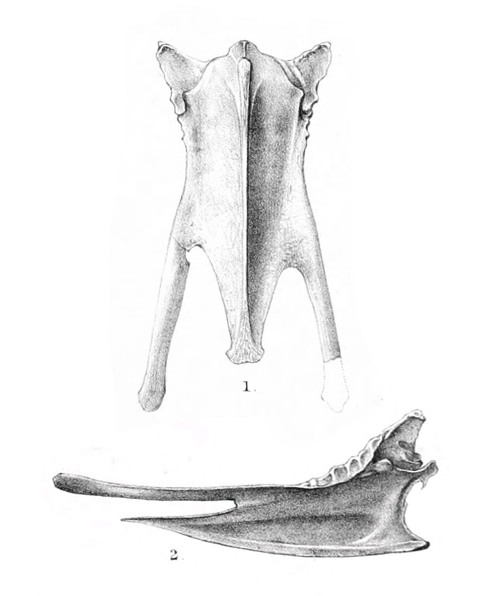 « Palaeolimnas chathamensis » = Fulica chathamensis (Chatham Island Coot) 1. Sternum from side 2. Sternum from below